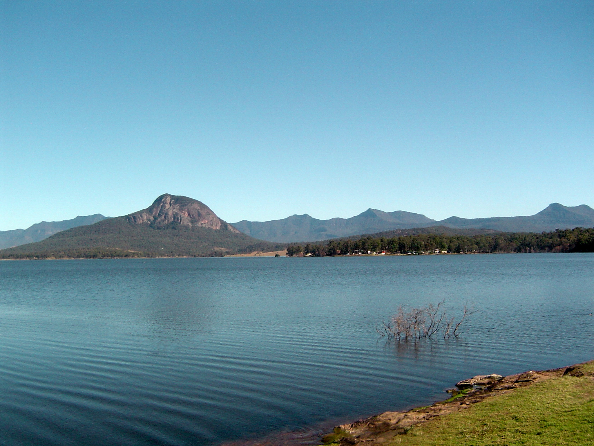 Lake Moogerah and Mount Greville. Mount Mitchell and Spicers Peak are in the background. Dam level was at 99.5%.